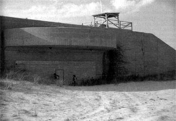 Gun Battery at Fort Miles, circa 1973.Owner C. Warrington